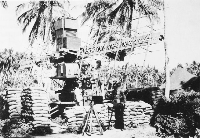 The 3d Defense Battalion operated this SCR-268, the first search radar established on Guadalcanal after the 1st Marine Division landed there on 7 August 1942.